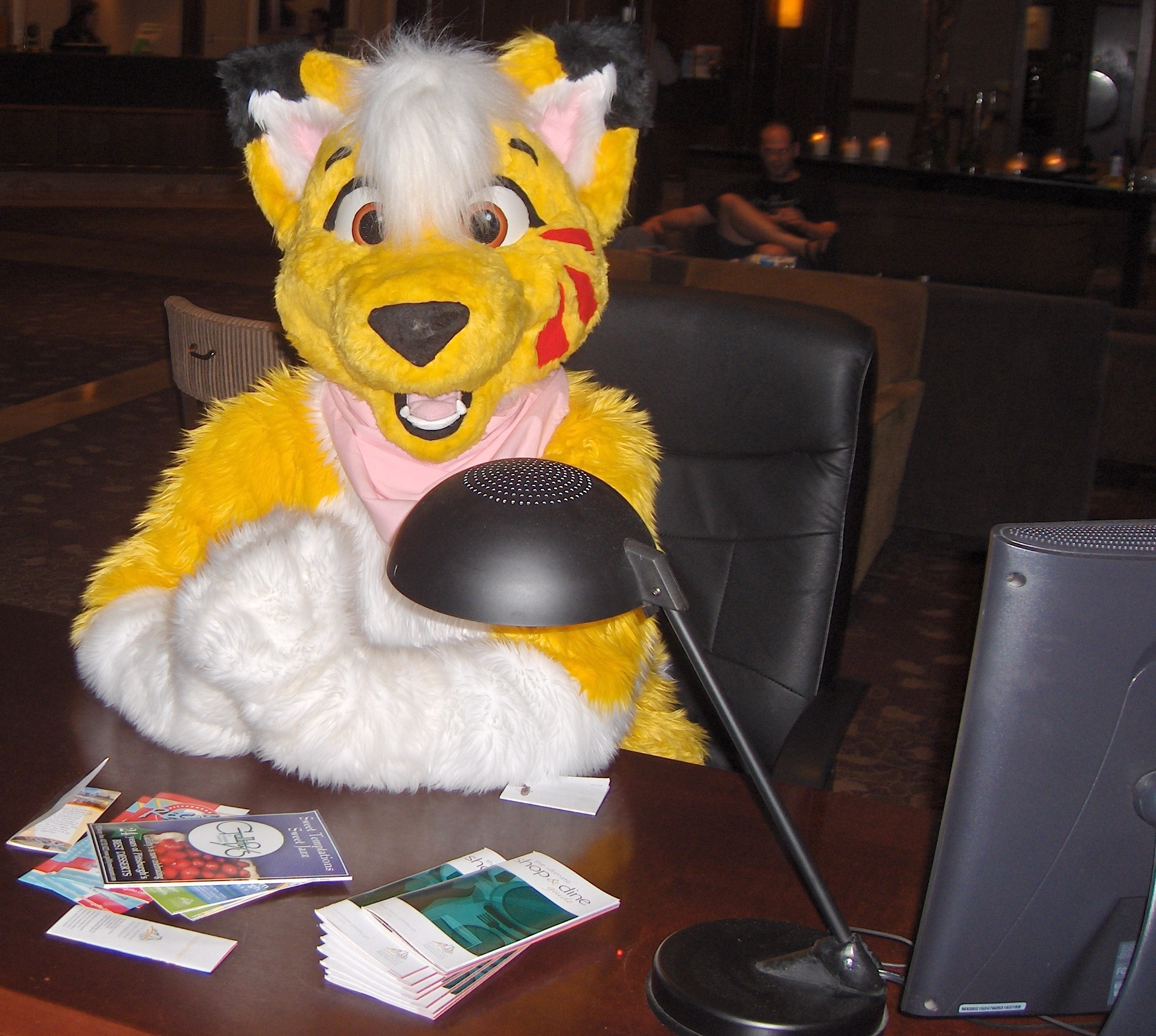 Lucky Coyote pretends to play the role of concierge for Anthrocon 2007 attendees.